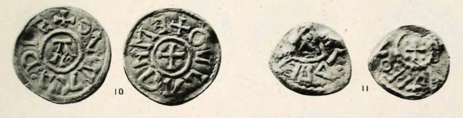 Images of 2 East Anglian coins dated to the 880s, now in the British Museum